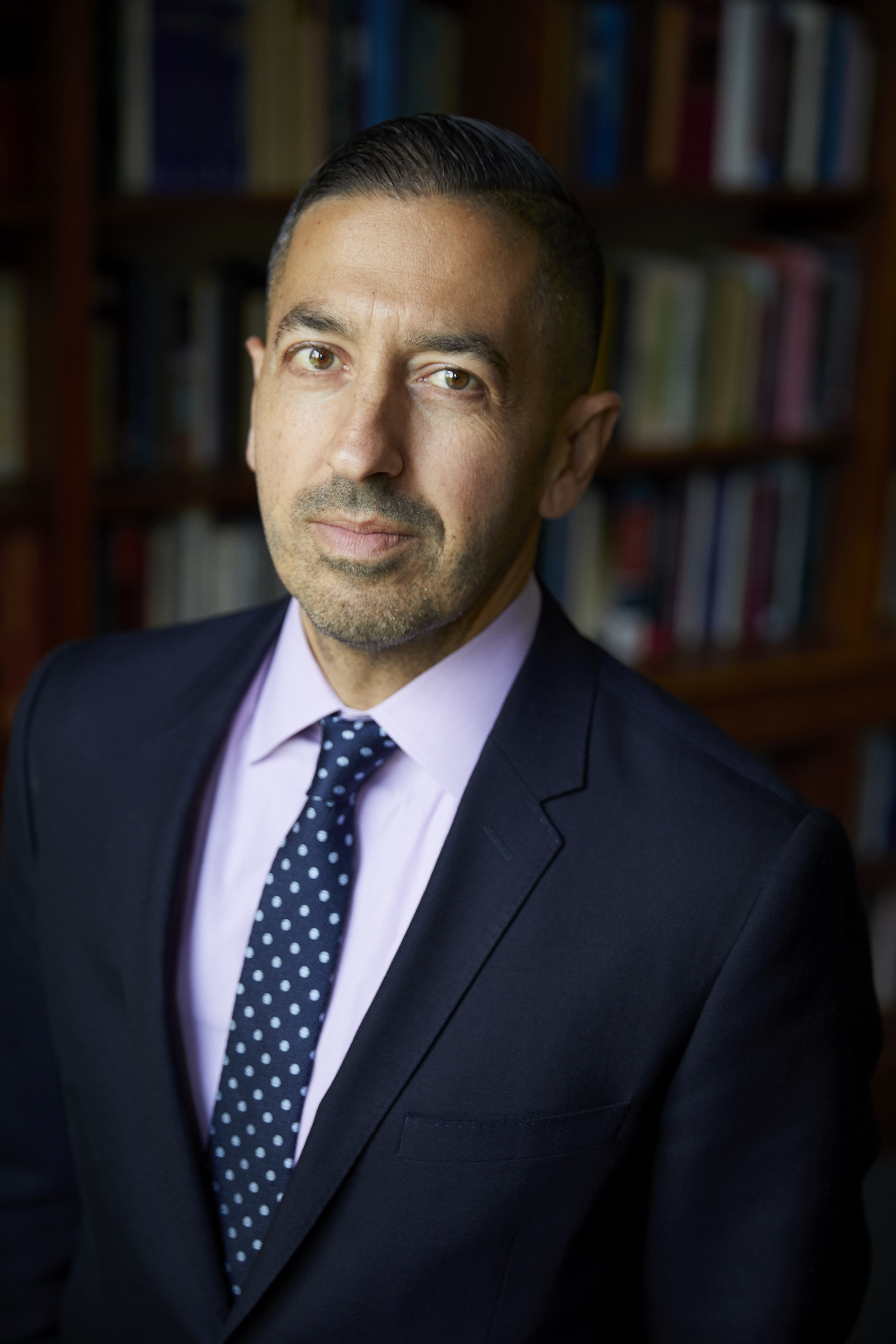 This is the headshot for Dean Sandro Galea, dean of Boston University School of Public Health.